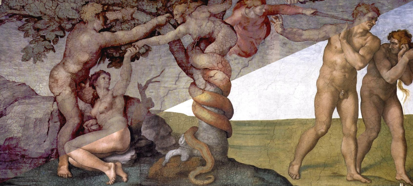 The Fall and Expulsion of Adam and Eve in the Sistine Chapel, before and after restoration. I had some difficulties aligning the images exactly, perhaps because the painting is not entirely a flat surface.